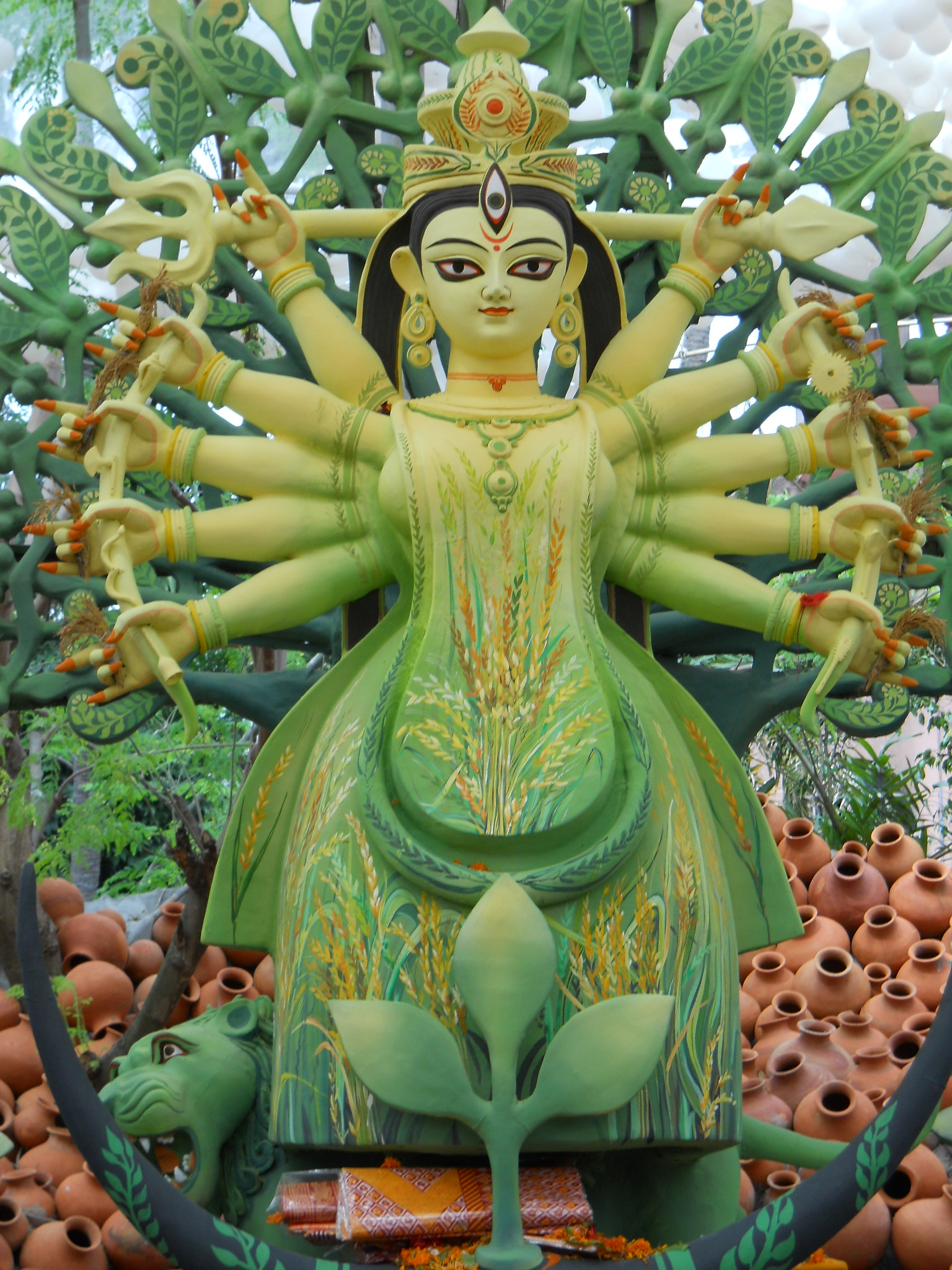 Barisha Club